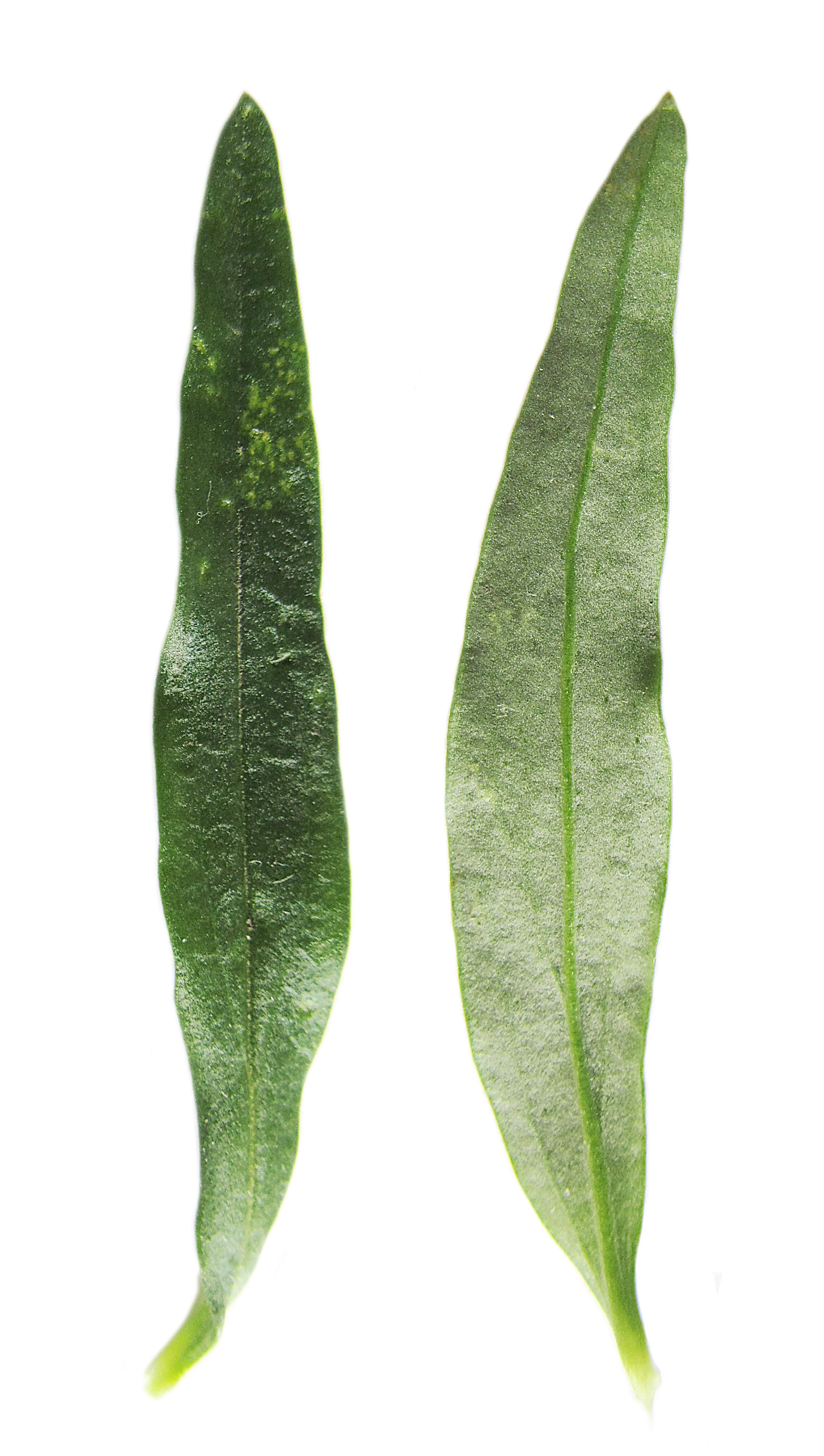 Antirrhinum majus leaf